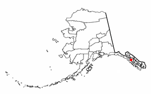 Adapted from Wikipedia's AK borough maps by Seth Ilys.